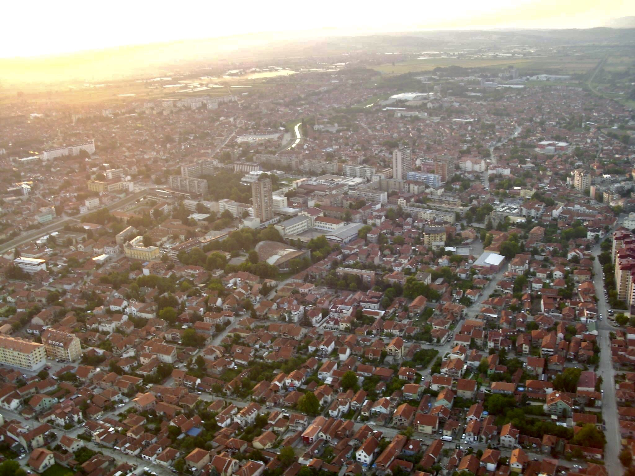 City of Leskovac from the air